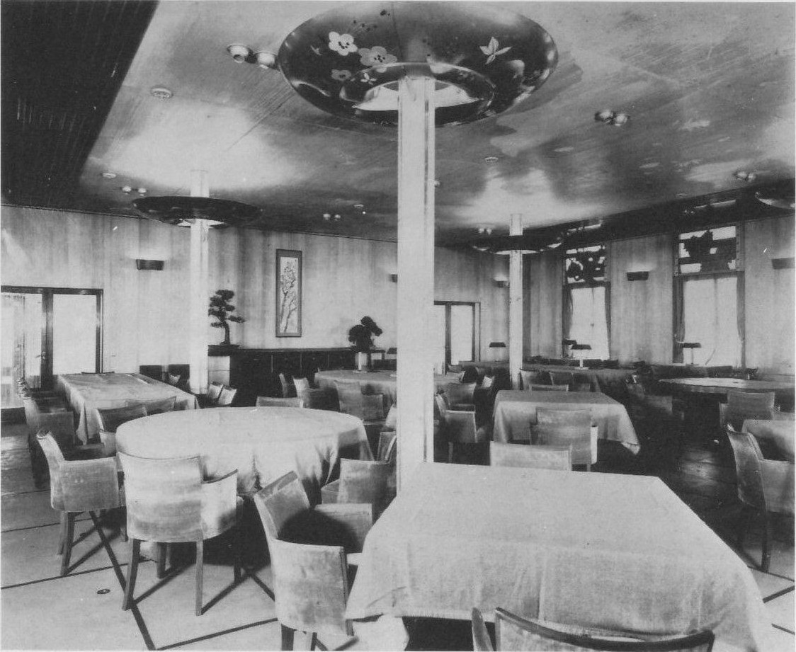 O.S.K Line "Argentina Maru" Dining Room 1st Class. Designed by Togo Murano.